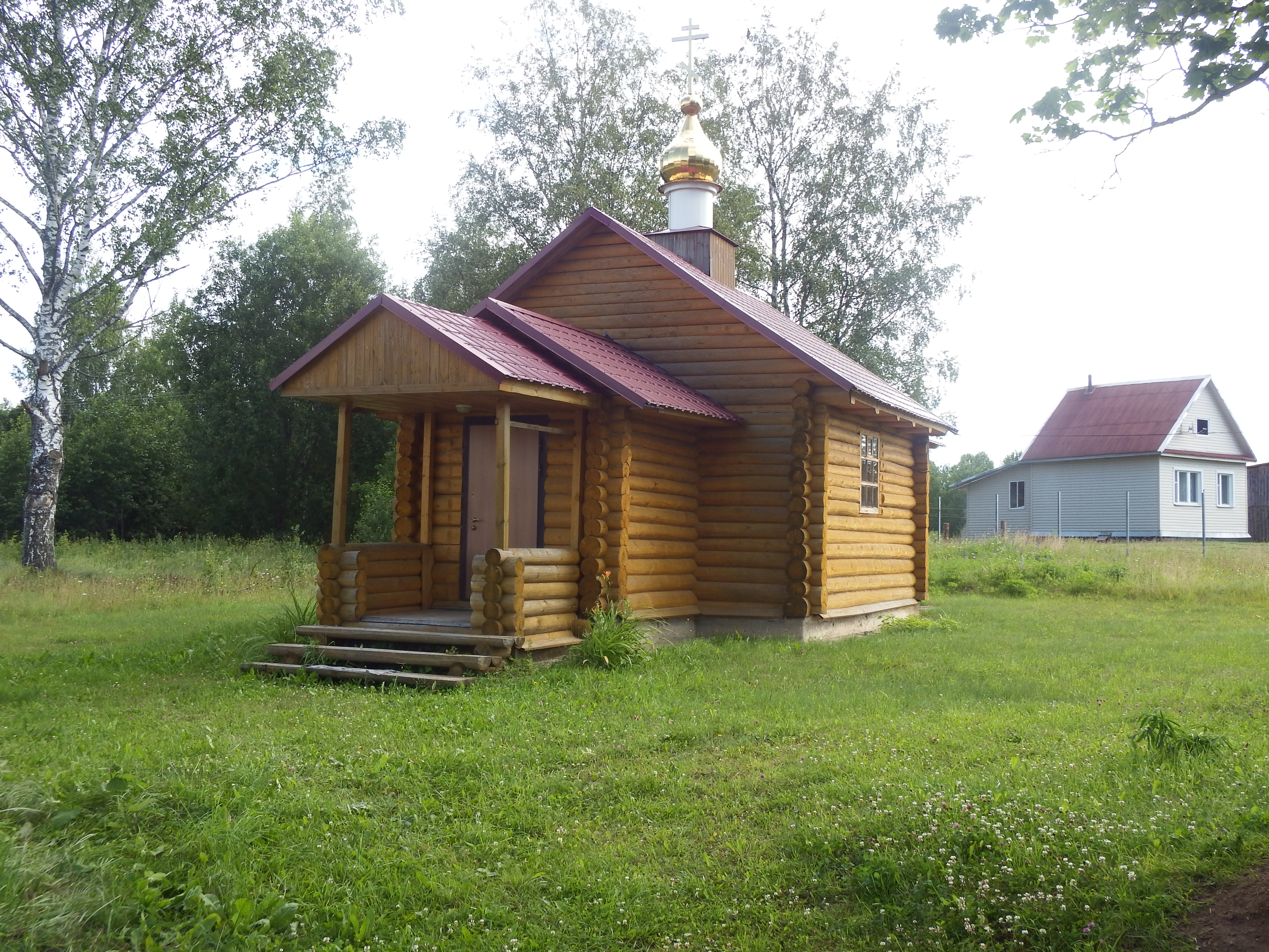 Novoselie, Pliusski district, Pskov region, the chapel